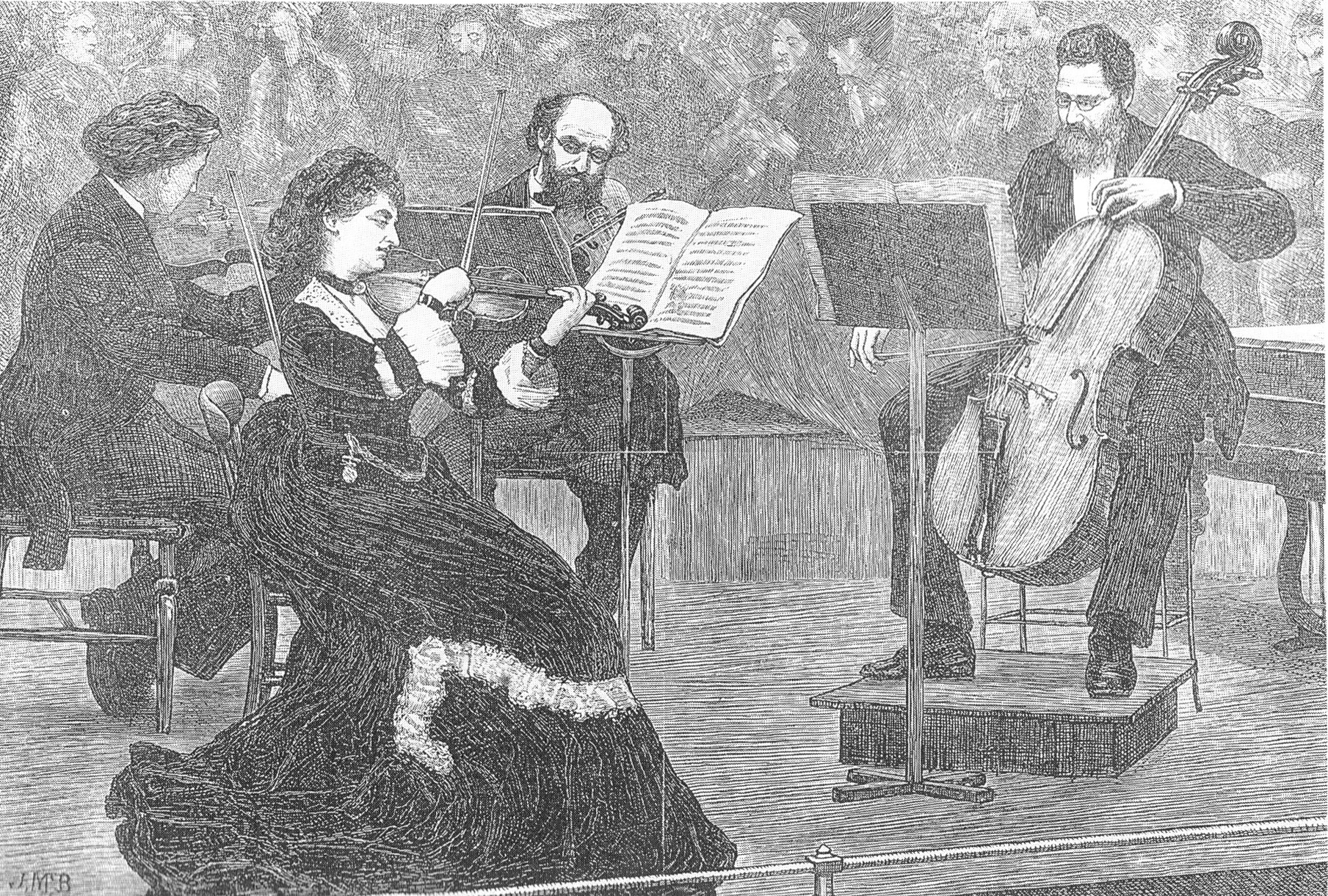 Violinist Vilemina Neruda leading a string quartet, c. 1880.